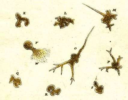 The first record and illustration of an amoeba (possibly Chaos carolinense), from Roesel von Rosenhof's Insecten-Belustigung